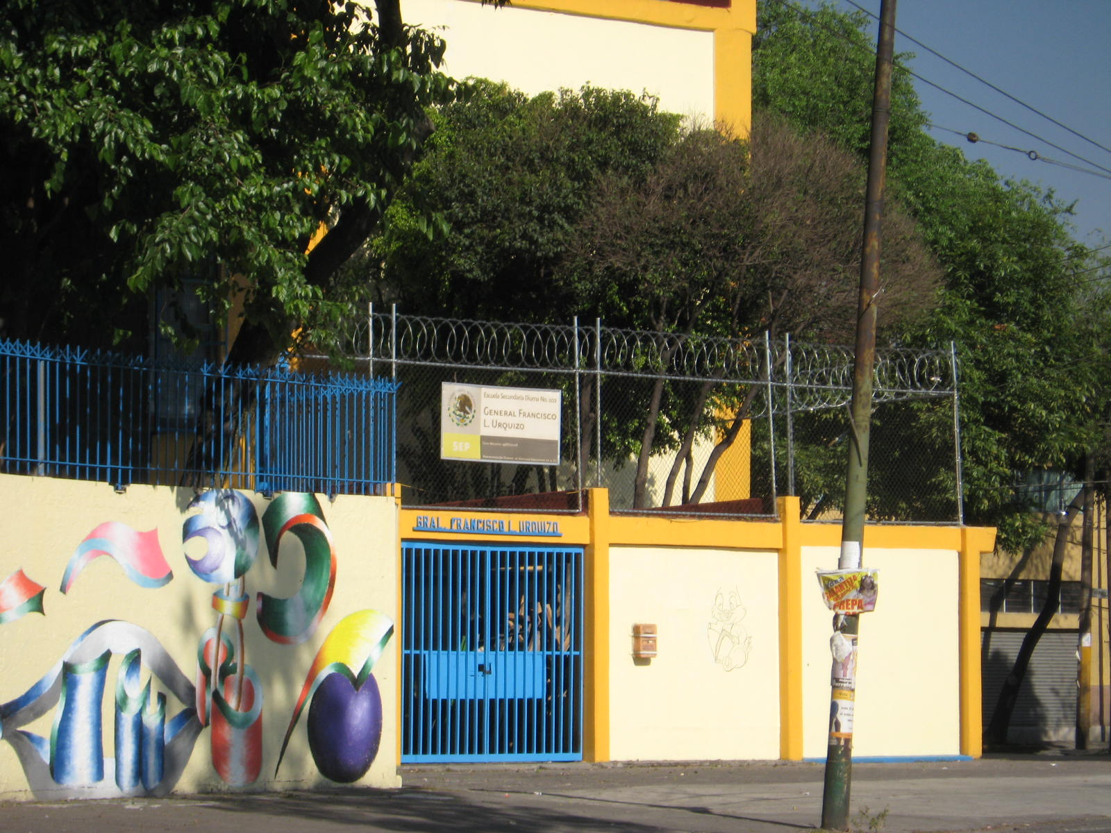 Escuela Secundaria Diurna No. 102 General Francisco L. Urquizo ("General Francisco L. Urquizo Diurnal Secondary School No. 102") in Colonia Doctores in Mexico City